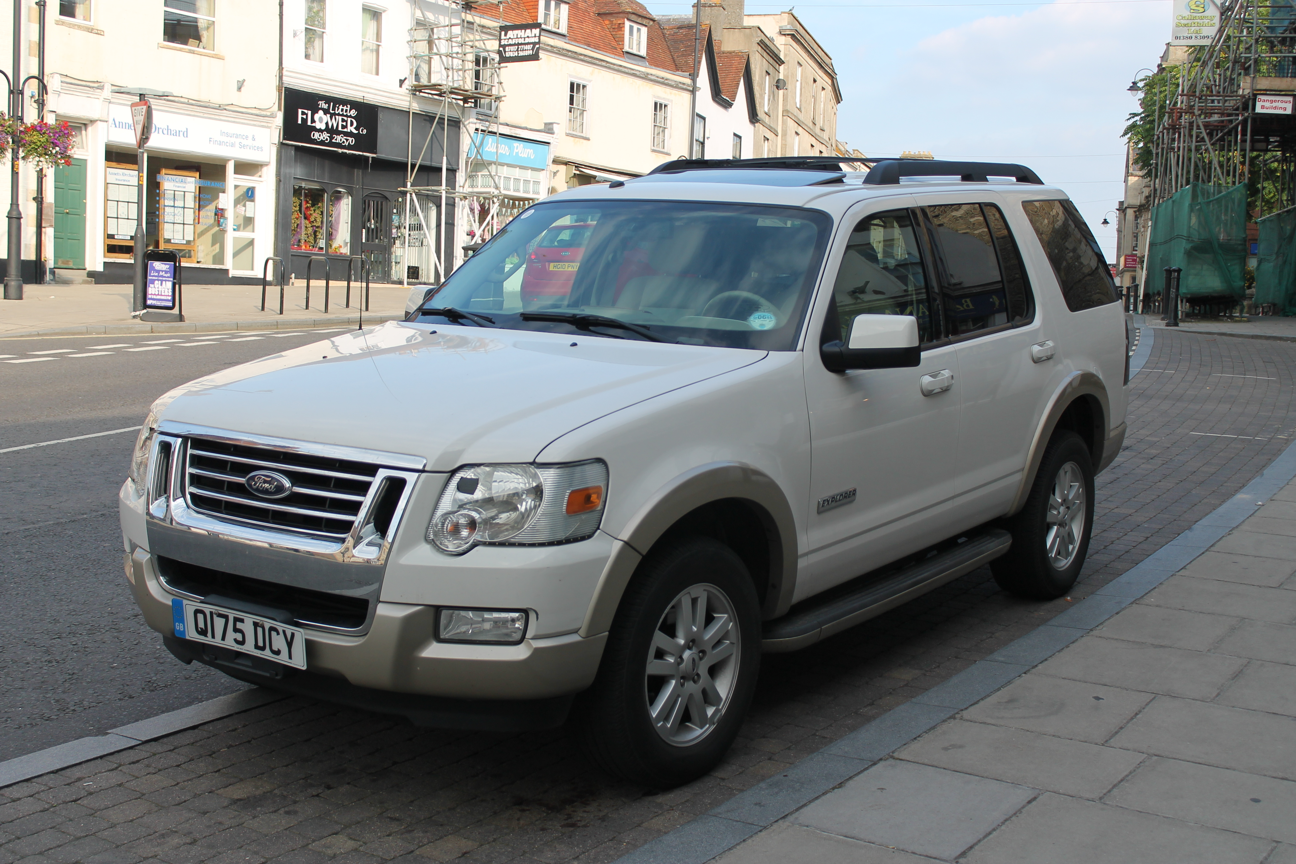 Slightly obscure one this, for several reasons. One, obviously you don't see these much in the UK, but also this one's been Q plated, and on the DVLA says it's year of manufacture was 2013- clearly wrong as the successor to this model was released in 2011. Note it's also unusual in the fact it's had standard EU size plates made for it, which clearly don't fit on the front! I can see these were made in the same town I spotted and I doubt they provide square plates! It was imported into the UK in July 2013- it's a bit odd it's been Q plated- I imagine there's a lack of documentation for this vehicle. It's had a few modifications like the rear fog light, but retains its US main lights, albeit with stickers on the front. It's equipped with the 4.0 litre V6 engine. I quite like the look of these, and there can't be many around in the UK. I like the US dealer stickers still in place- do most cars over there have them? It tells me this car was once supplied by Battlefield Ford and Jeep in Charlotesville, Virginia. In case anyone's interested, 2 US presidents, Jefferson (no.3) and Monroe (no.5) lived there. Registration number: Q175 DCY ✔ Taxed Expires: 01 July 2015 ✔ MOT Expires: 27 June 2015 Vehicle make :FORD Date of first registration :17 July 2013 Year of manufacture :2013 Cylinder capacity (cc) :4000cc CO₂Emissions :Not available Fuel type :PETROL Export marker :No Vehicle status :Tax not due Vehicle colour :WHITE